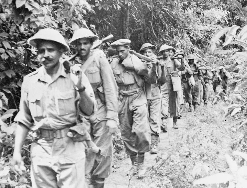 War Office Second World War Official Collection